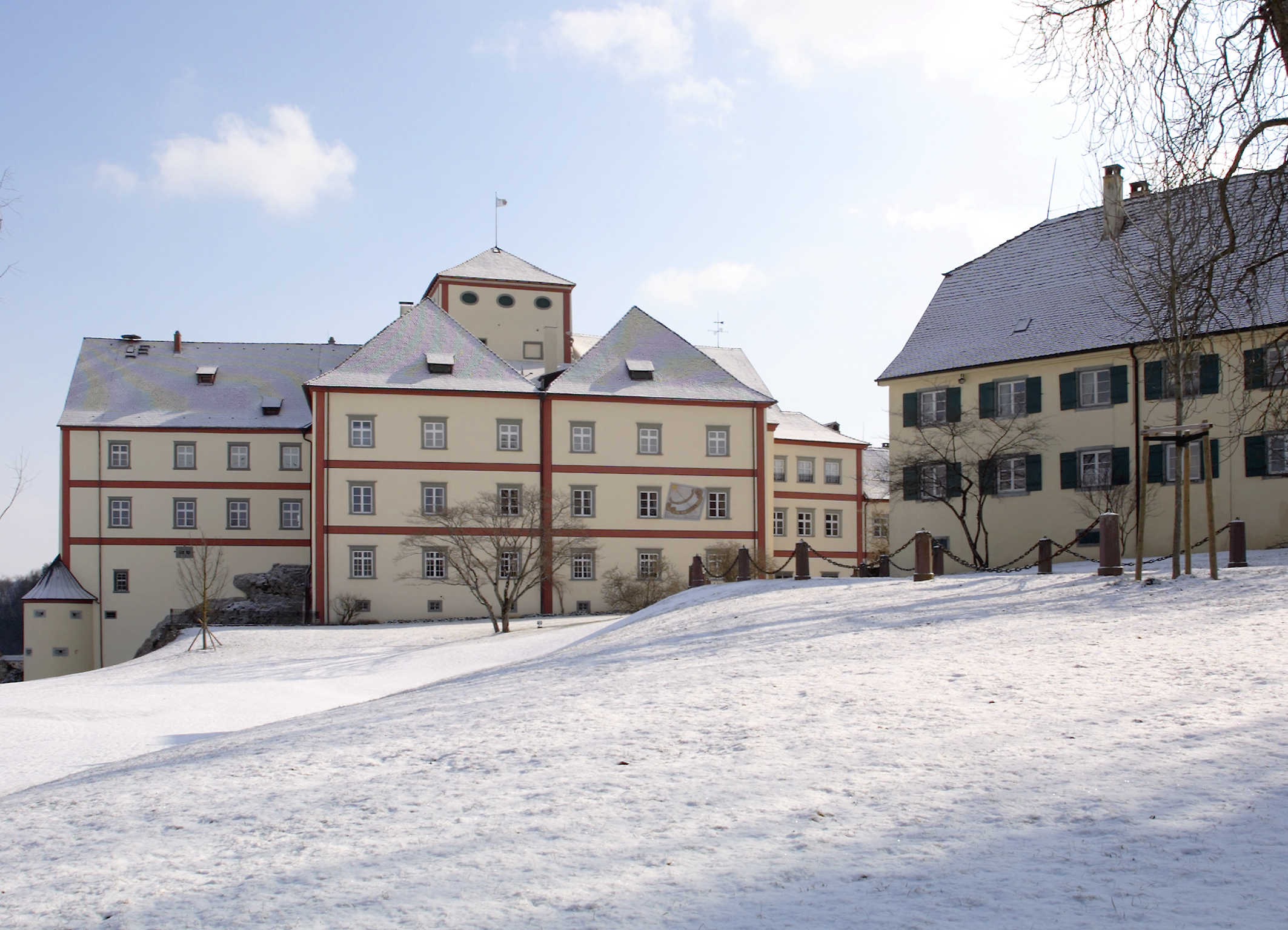 Chateau Langenstein near Eigeltingen / Germany